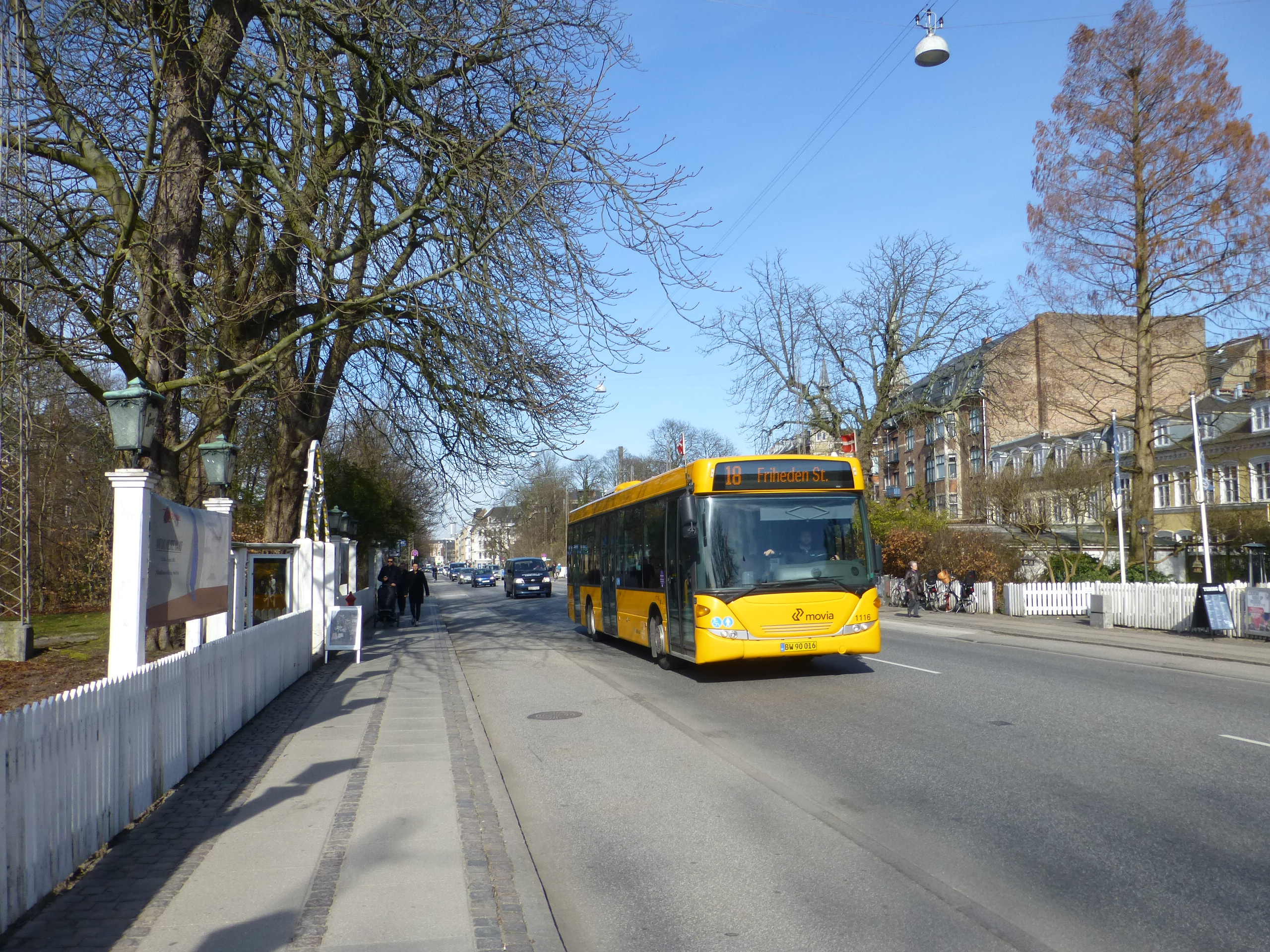 Movia bus line 18 on Allegade in Frederiksberg in Copenhagen. The flags are due to visit by the Dutch royal couple.